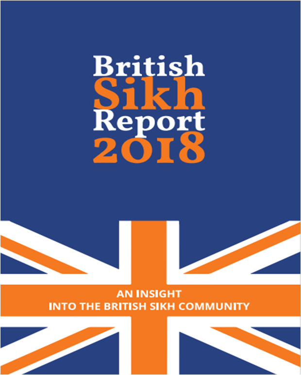 Cover of the British Sikh Report 2018